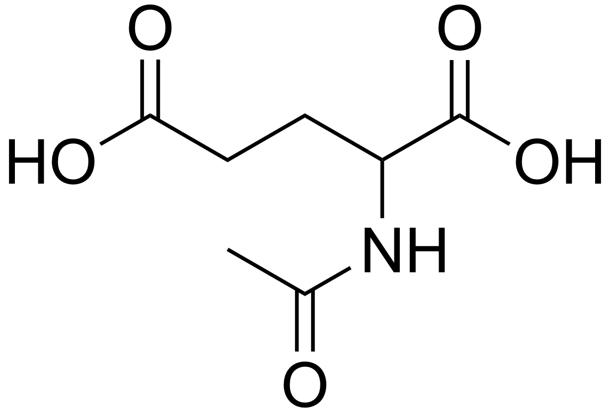 Chemical structure of N-Acetylglutamic acid